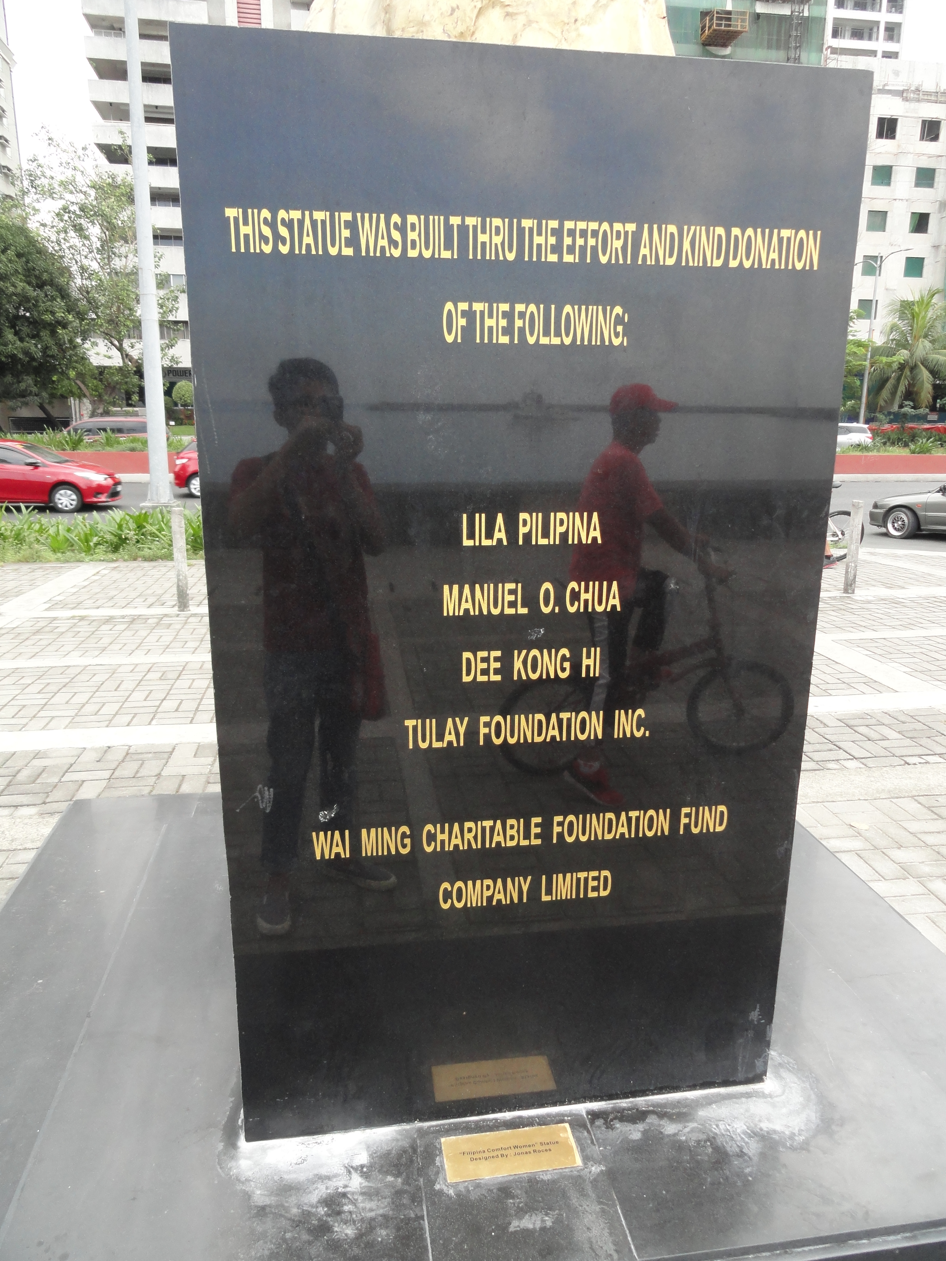 Manila Filipina Comfort Women Statue pedestal backside